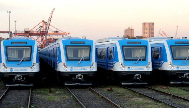 New EMU rolling stock for the Sarmiento line n Buenos Aires, next to the port.